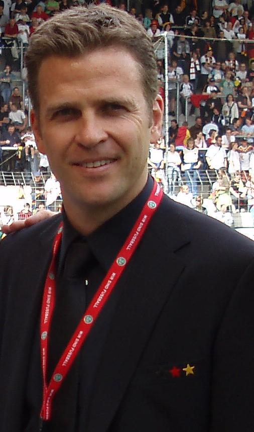 Oliver Bierhoff (cropped version of original file)